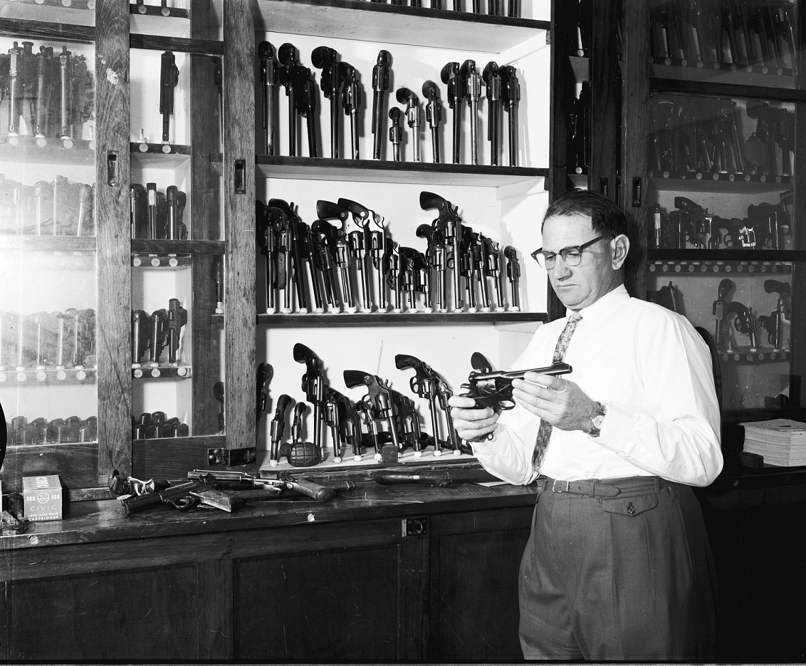 Detective Senior Sergeant Les Bardwell, pictured here in 1962, examines one of hundreds of handguns displayed in cabinets for reasons of security and safety. PR Neg 1962 (SL945) courtesy of the Queensland Police Museum.